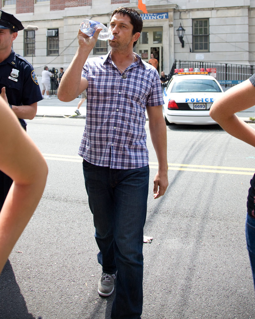 This shot of Gerard Butler was taken back in the summer.